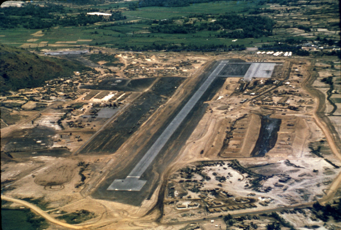 Duc Pho air field constructed during April and May by the 39th Engineer Battalion in support of Operation Oregon. The runway is 3800' long and has an MX19 aluminum matting.